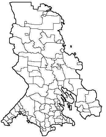 Map of municipalities of the Republic of Karelia